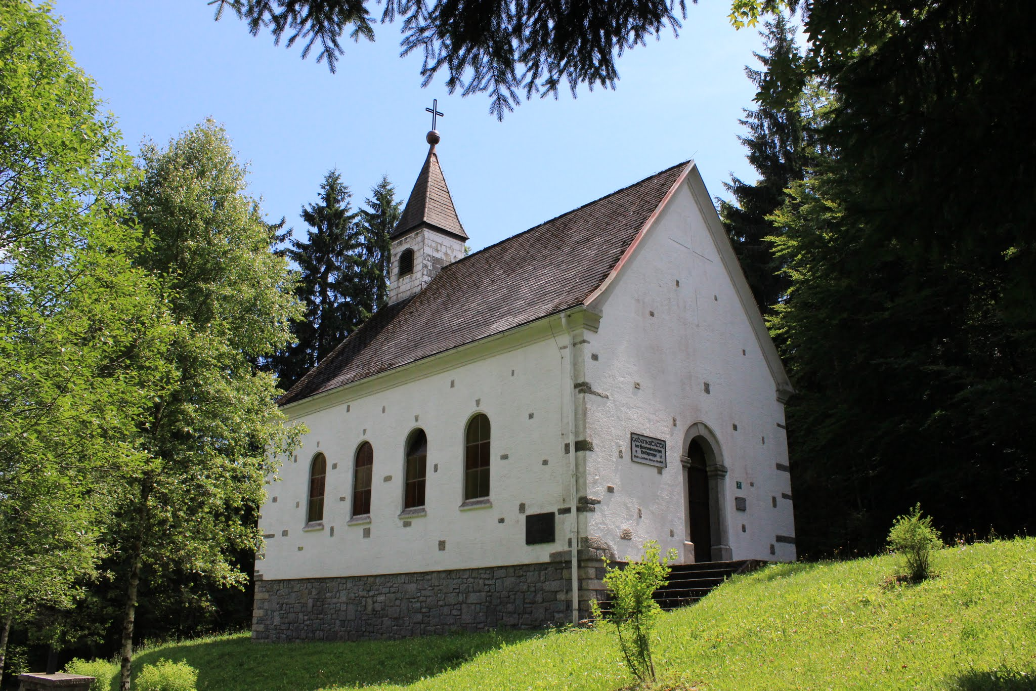 Church